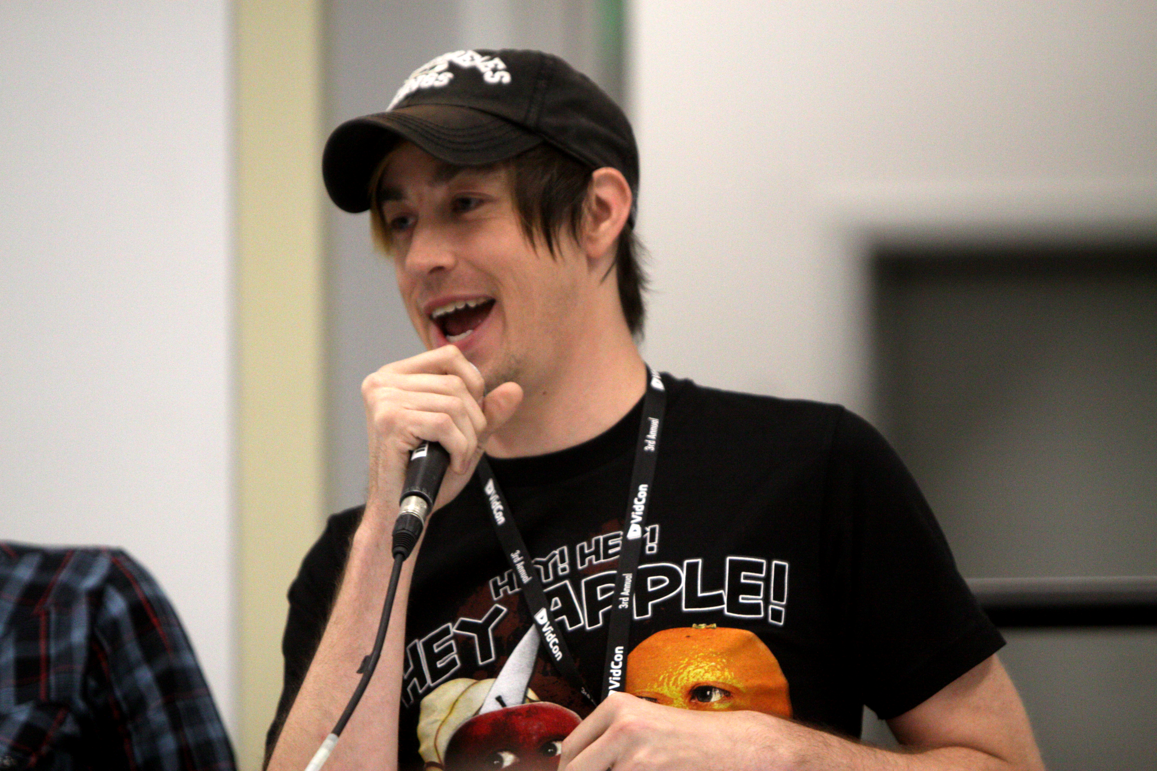 Dane Boedigheimer speaking at VidCon 2012 at the Anaheim Convention Center in Anaheim, California.